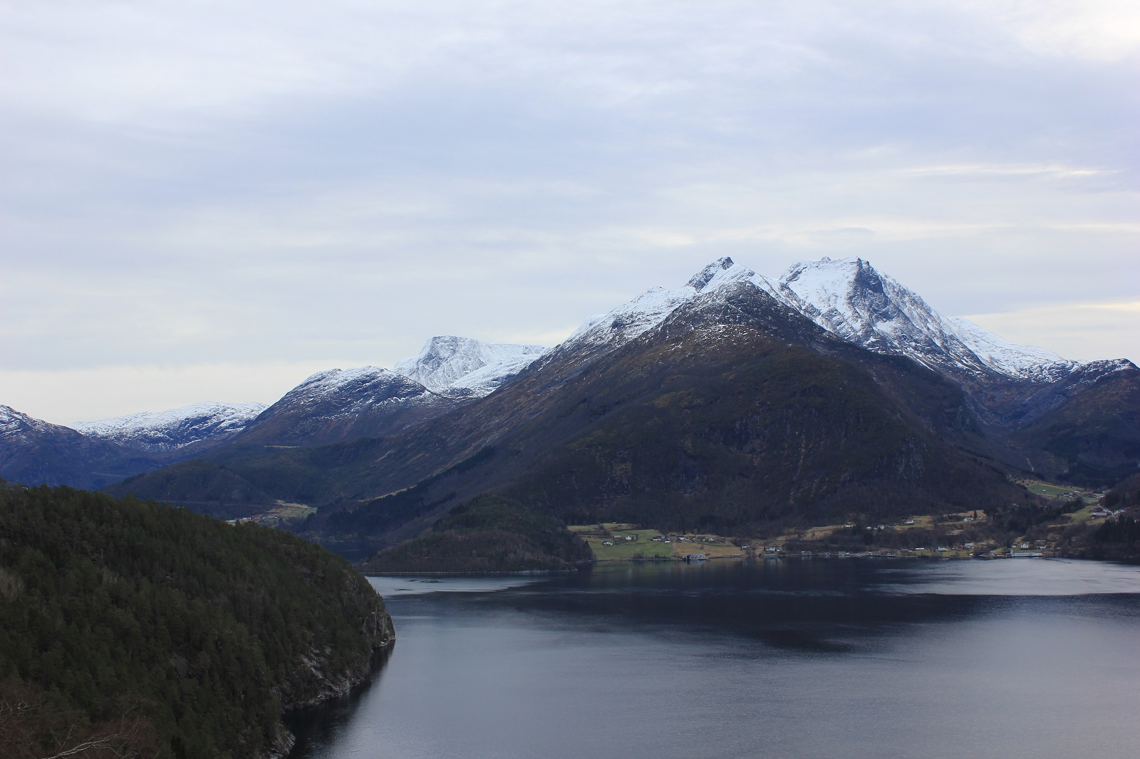 Austefjorden, Volda